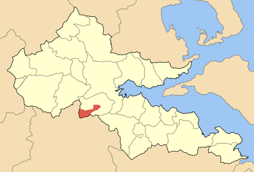 Locator map of Pavliani community (Κοινότητα Παύλιανης) in Fthiotida prefecture (Νομός Φθιώτιδας) in Greece.